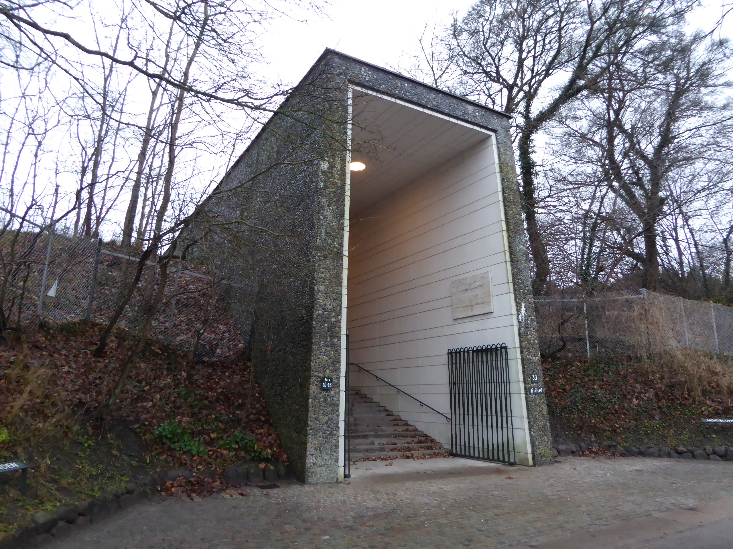 Mindelunden i Ryvangen, a memorial park in Copenhagen to commemorate fallen members of the Danish resistance to the German occupation of Denmark during World War II. The main entrance at Tuborgvej.